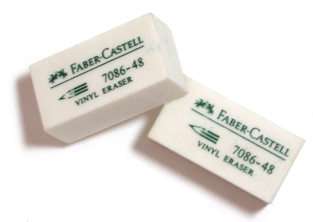 Faber-Castell erasers. 7086-48 vinyl eraser